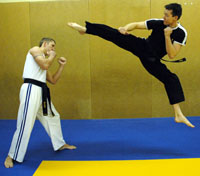 Blaze KunGekDo school